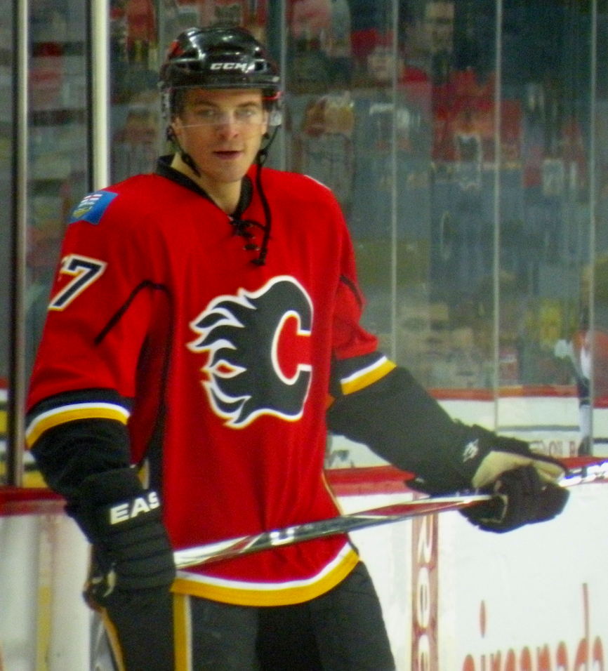 Calgary Flames forward Lance Bouma prior to making his National Hockey League debut in Calgary against the Los Angeles Kings